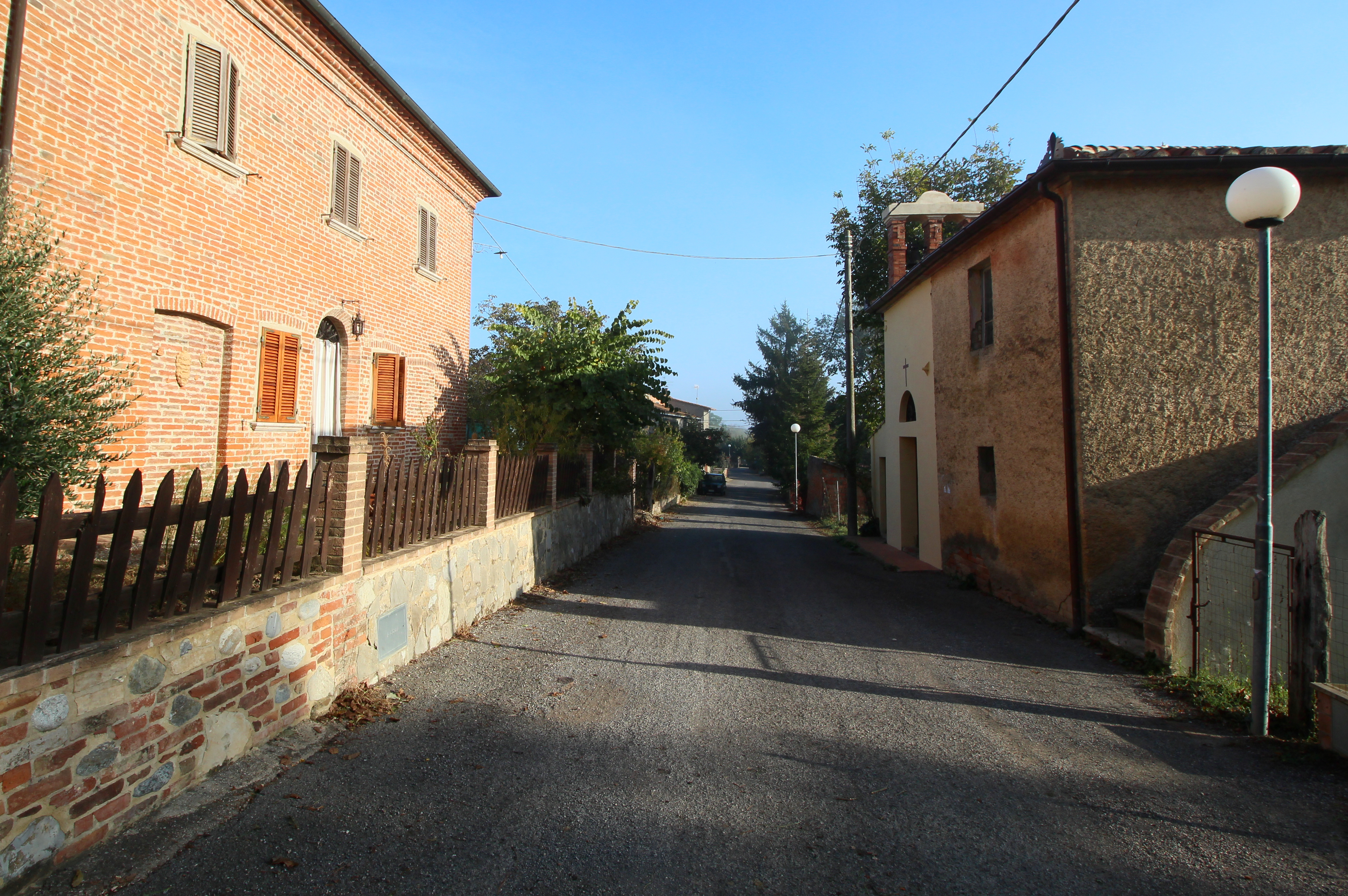 Cozzano, hamlet of Castiglione del Lago, Province of Perugia, Umbria, Italy